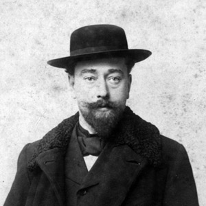 Paul Chevré, sculptor